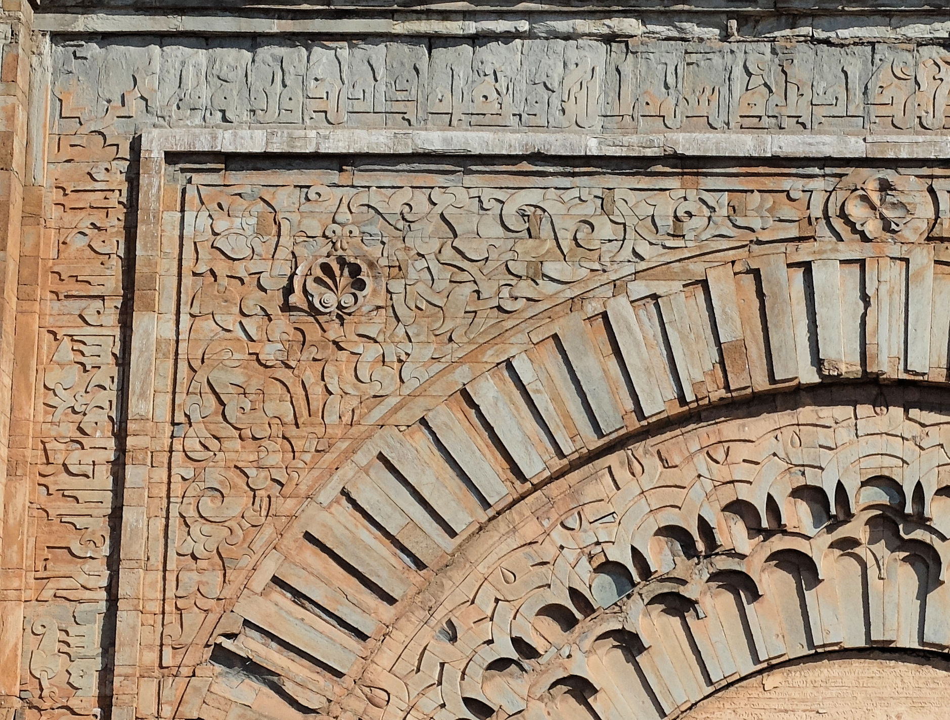 View of the carved sandstone decoration on the facade of Bab Agnaou, Marrakesh